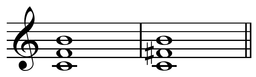 An example of quartal chords from Schoenberg's music.